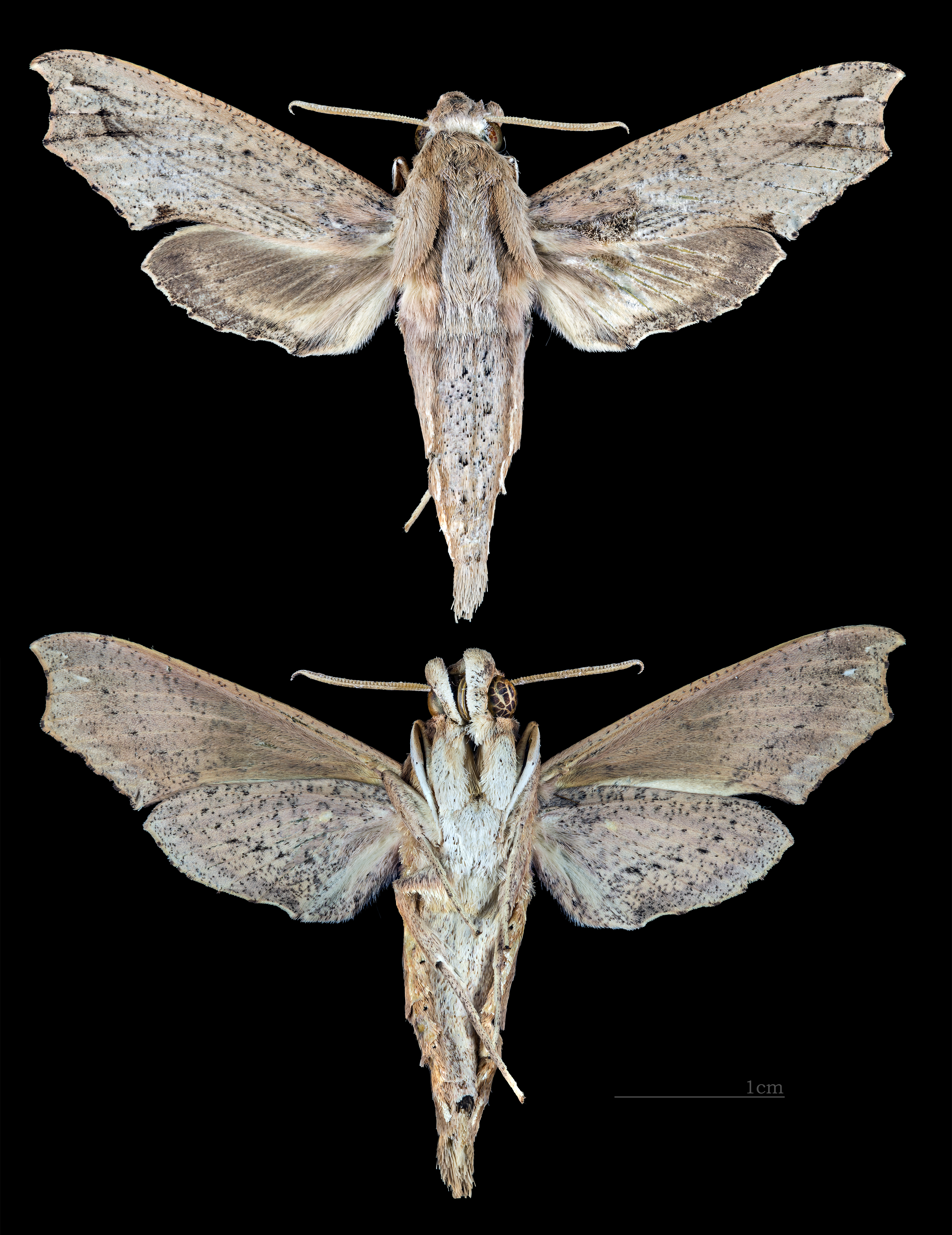 Eupanacra automedon - Two views of same specimen Collection of the Mathematician Laurent Schwartz